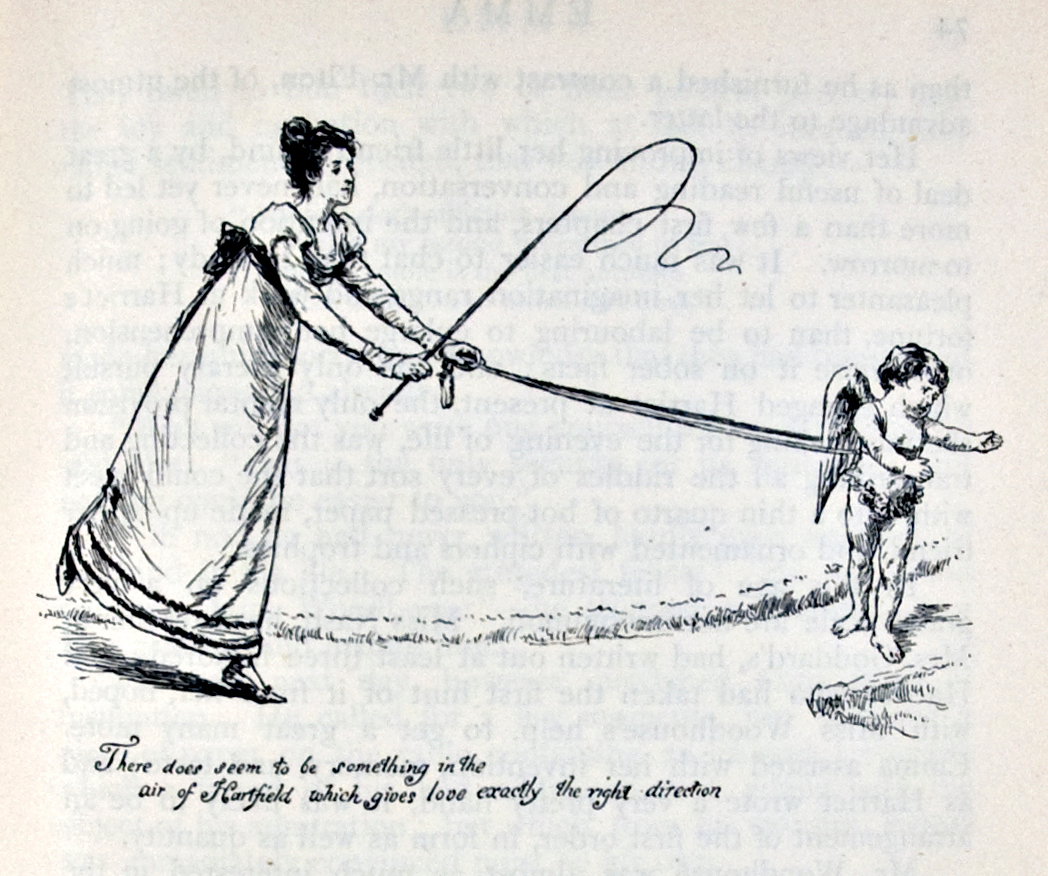 "There does seem to be a something in the air of Hartfield which gives love exactly the right direction" - Emma to Harriet. Austen, Jane. Emma. London: George Allen, 1898, page 73.